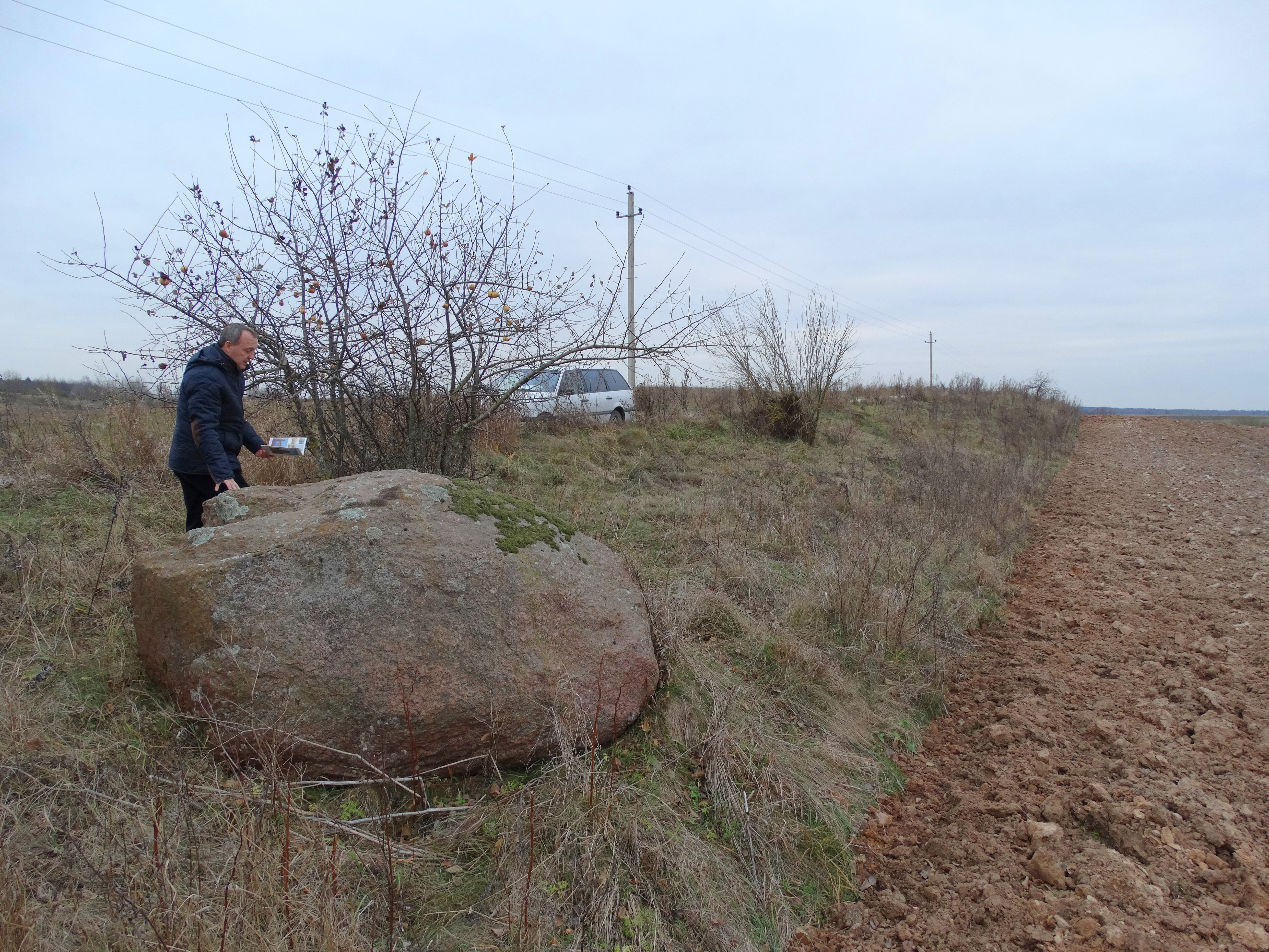 Aleksiejūniškės stone, Kaišiadorys District, Lithuania